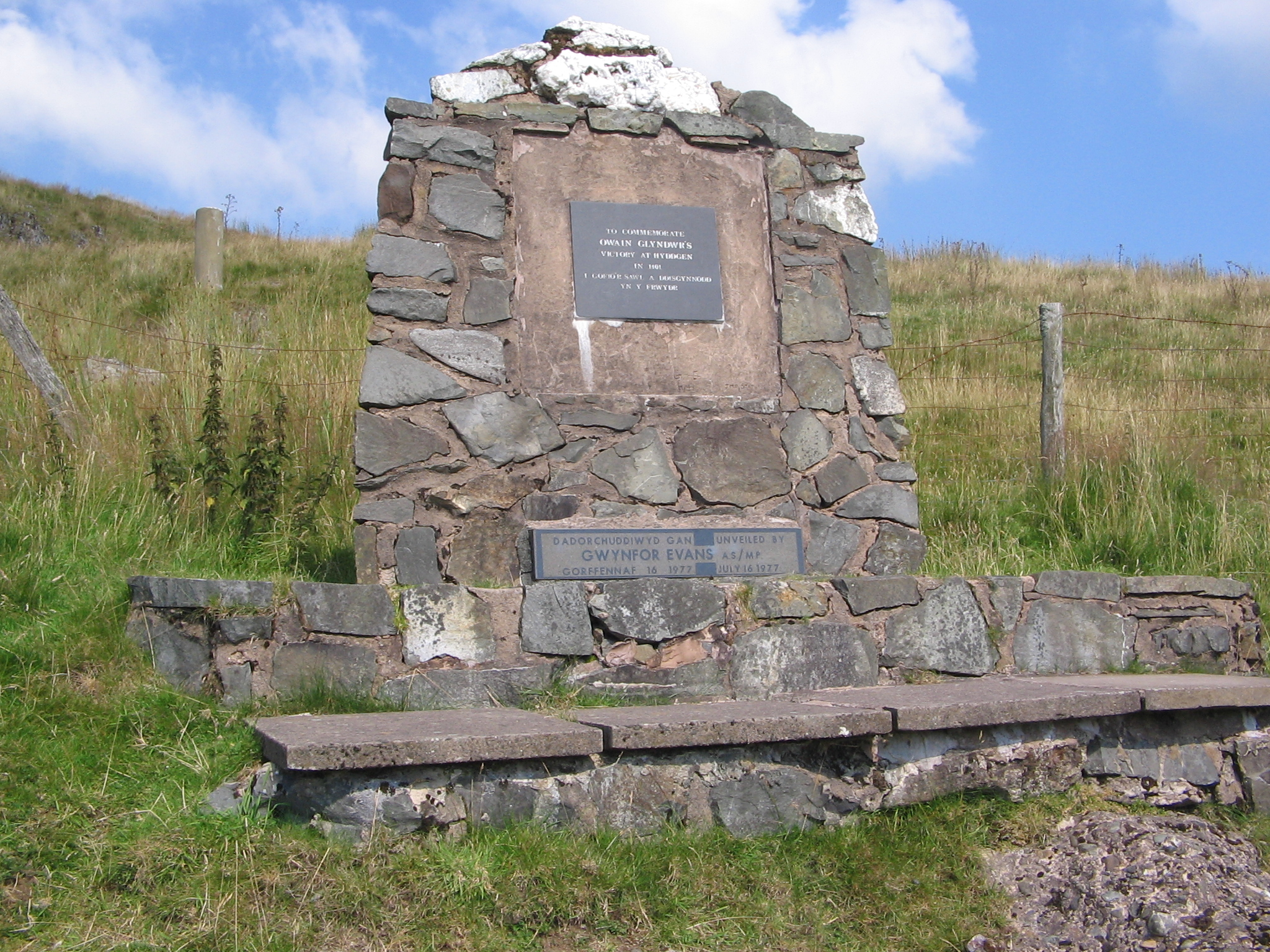 Memorial to the slain of the Battle of Mynydd Hyddgen, Plynlimon, Wales